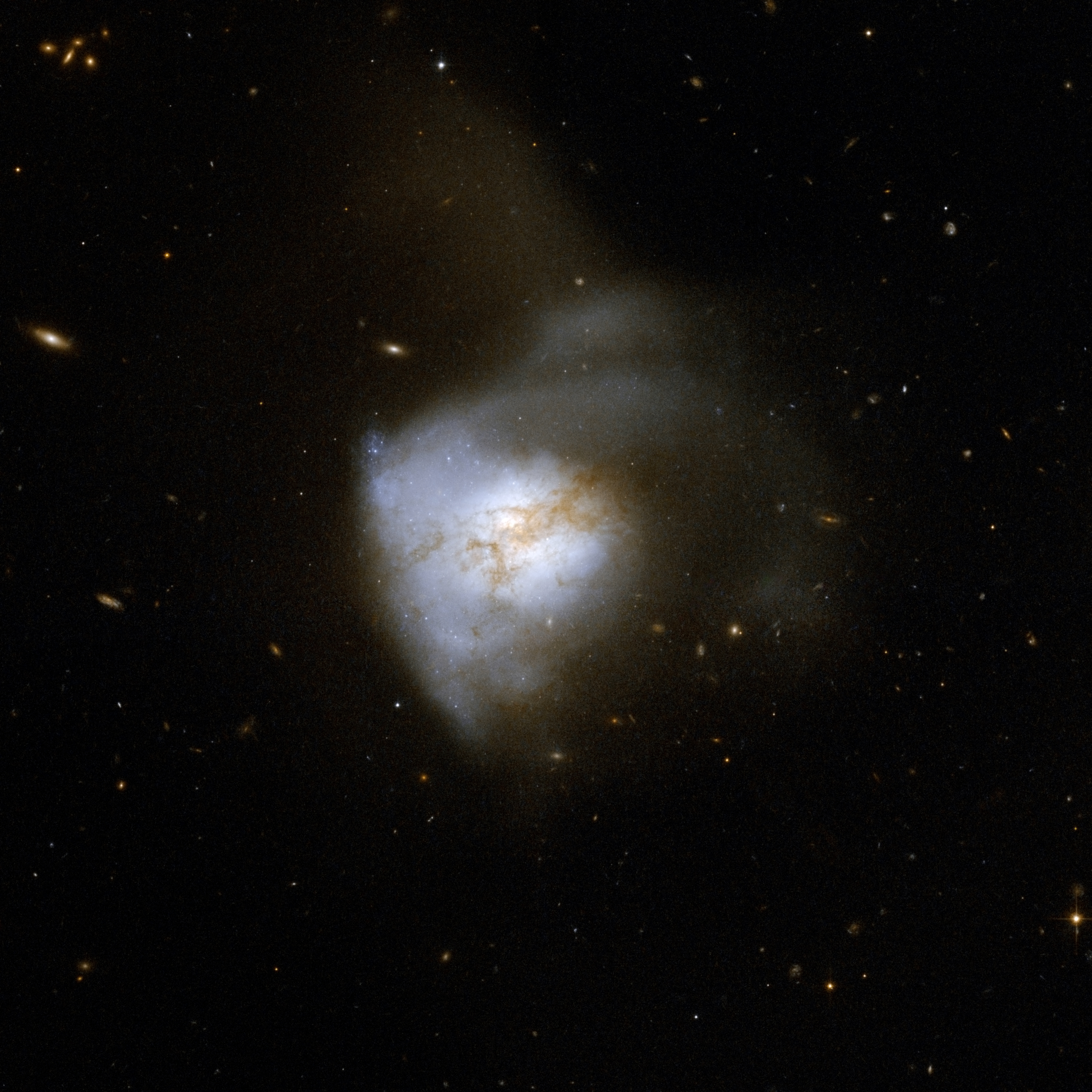 Arp 220 appears to be a single, odd-looking galaxy, but is in fact a nearby example of the aftermath of a collision between two spiral galaxies. It is the brightest of the three galactic mergers closest to Earth, about 250 million light-years away in the constellation of Serpens, the Serpent. The collision, which began about 700 million years ago, has sparked a cracking burst of star formation, resulting in about 200 huge star clusters in a packed, dusty region about 5,000 light-years across (about 5 percent of the Milky Way's diameter). The amount of gas in this tiny region equals the amount of gas in the entire Milky Way Galaxy. The star clusters are the bluish-white bright knots visible in the Hubble image. Arp 220 glows brightest in infrared light and is an ultra-luminous infrared galaxy. Previous Hubble observations, taken in the infrared at a wavelength that looks through the dust, have uncovered the cores of the parent galaxies 1,200 light-years apart. Observations with NASA s Chandra X-ray Observatory have also revealed X-rays coming from both cores, indicating the presence of two supermassive black holes. Arp 220 is the 220th galaxy in Arp's Atlas of Peculiar Galaxies. This image is part of a large collection of 59 images of merging galaxies taken by the Hubble Space Telescope and released on the occasion of its 18th anniversary on 24th April 2008. About the objectObject nameArp 220, IC 1127, VV 540, KPG 470, UGC 09913Object descriptionInteracting GalaxiesPosition (J2000)15 34 57.29 +23 30 09.5ConstellationSerpensDistance250 million light-years (100 million parsecs)About the dataData descriptionThe Hubble image was created using HST data from proposal 10592: A. Evans (University of Virginia, Charlottesville/NRAO/Stony Brook University)InstrumentACS/WFCExposure date(s)January 5, 2002Exposure time33 minutesFiltersF435W (B) and F814W (I)